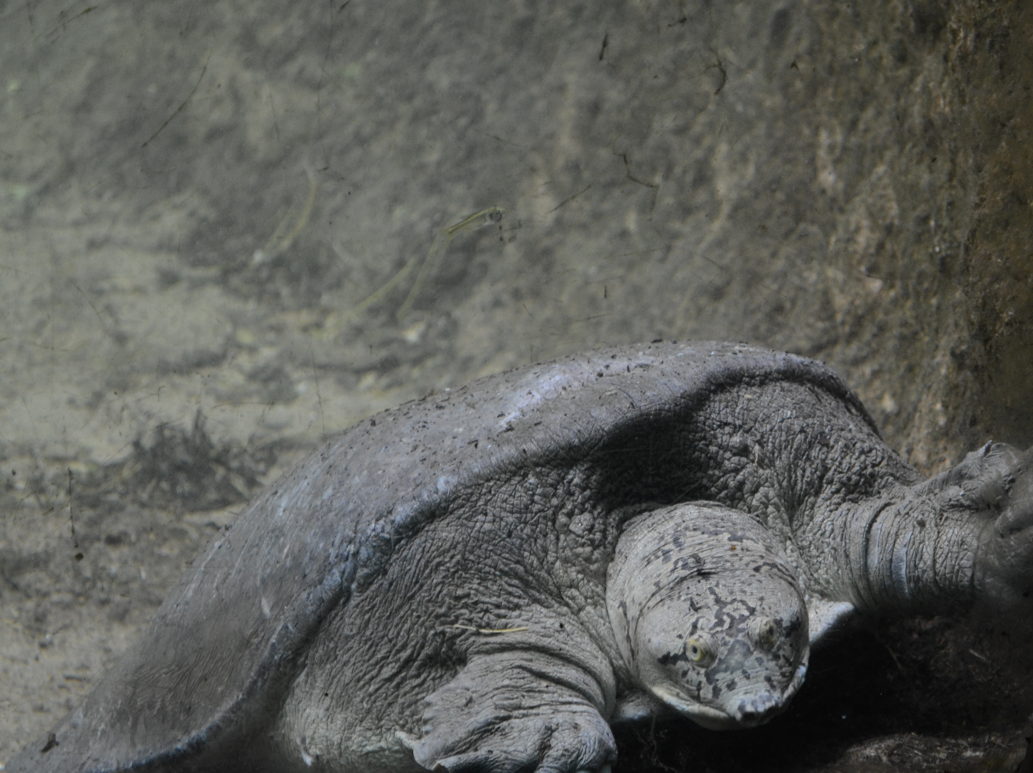 A fresh water turtle found mainly in the Indian sub-continent. This picture was taken at the Madras Crocodile Bank Trust